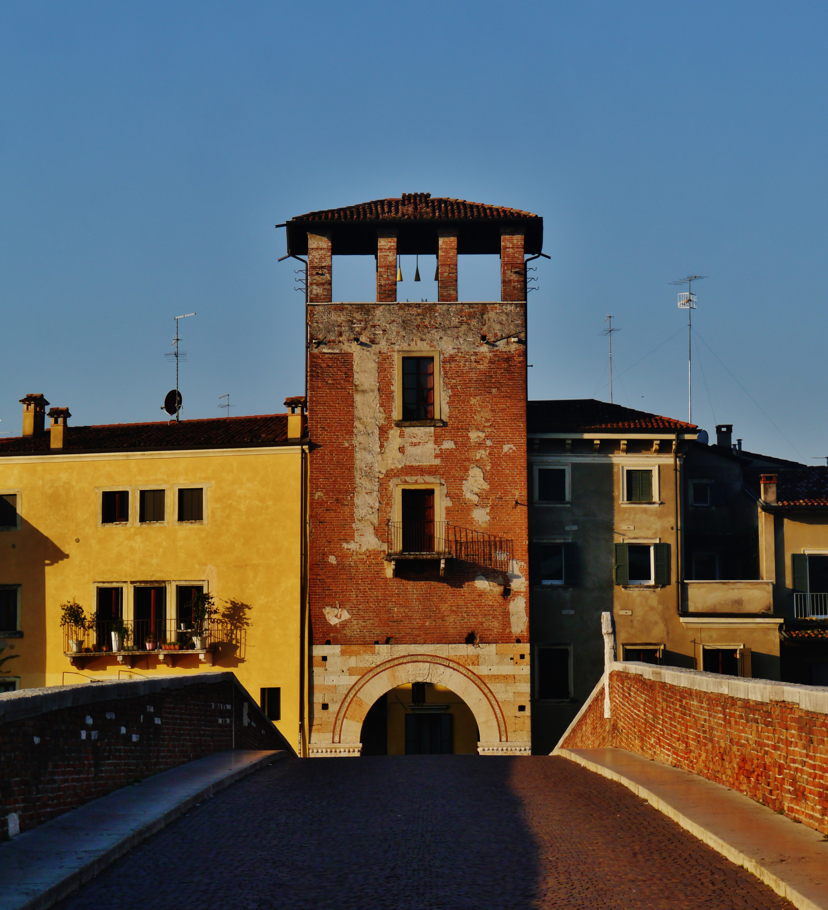 on the Stone Bridge, Verona, Province of Verona, Region of Veneto, Italy